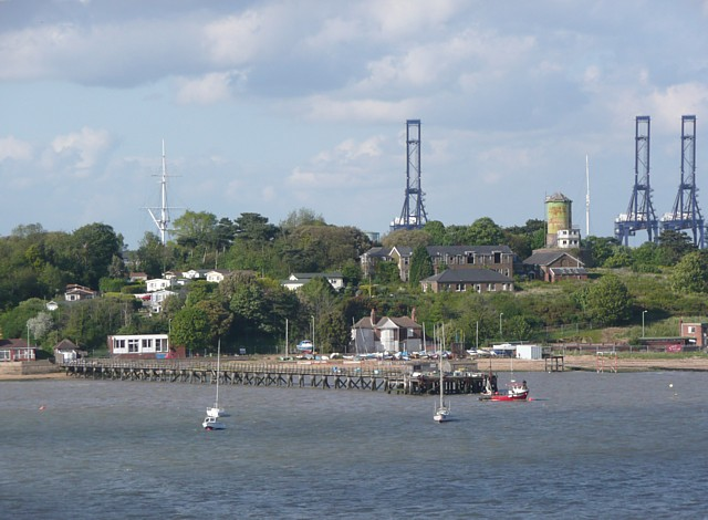 Martello Tower, Shotley With Shotley Pier in the foregrouns, and the giant cranes of the container port in the distance.